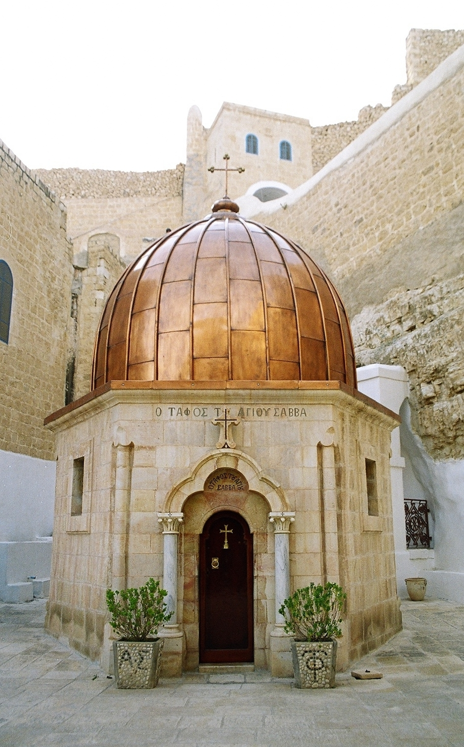 Tomb of st. Sabba